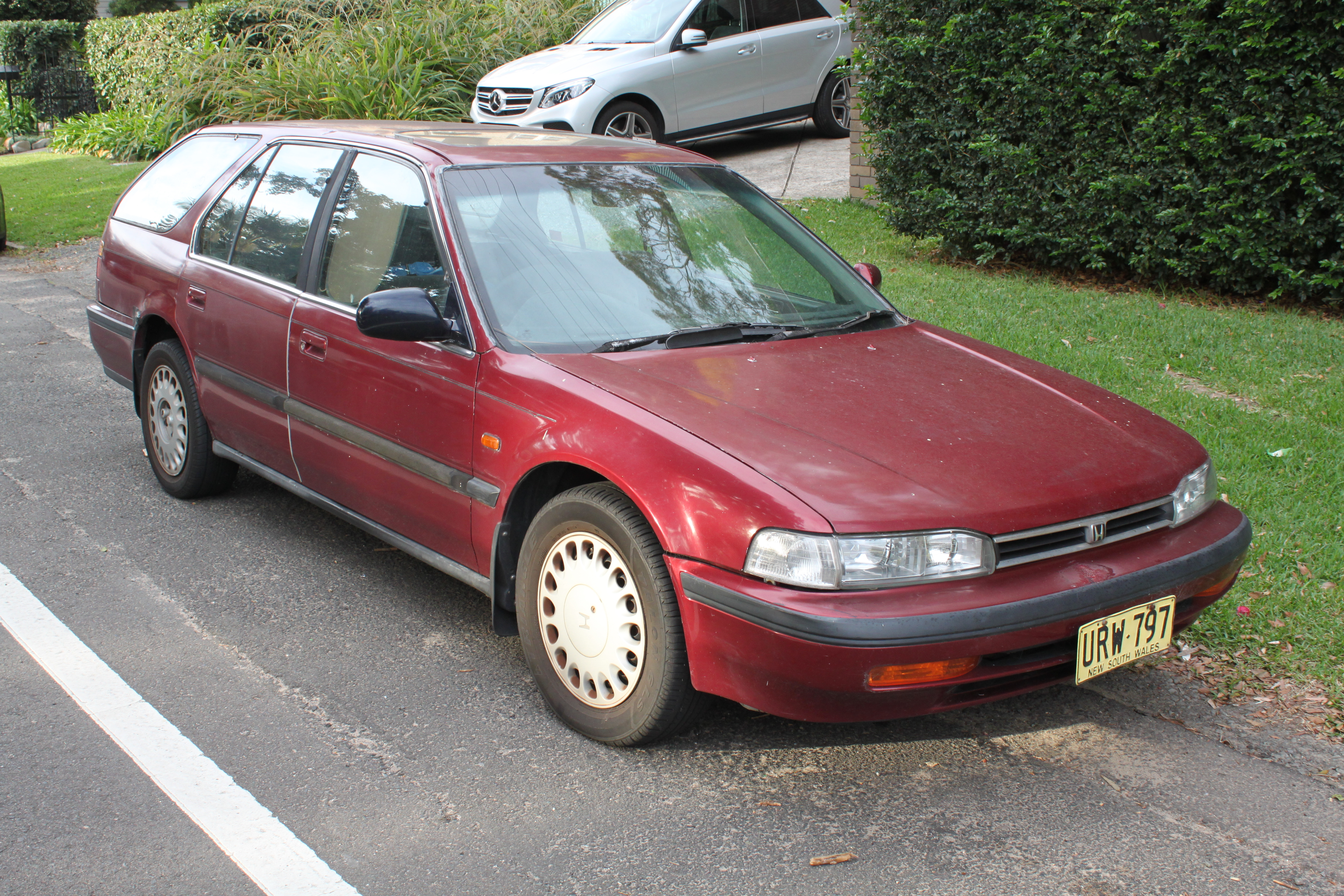 1992 Honda Accord Aerodeck Wagon